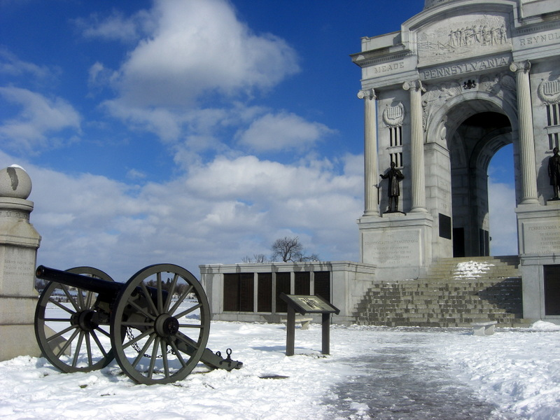 Gettysburg National Military Park This photo shows the Pennsylvania Memorial in Gettysburg, PA.